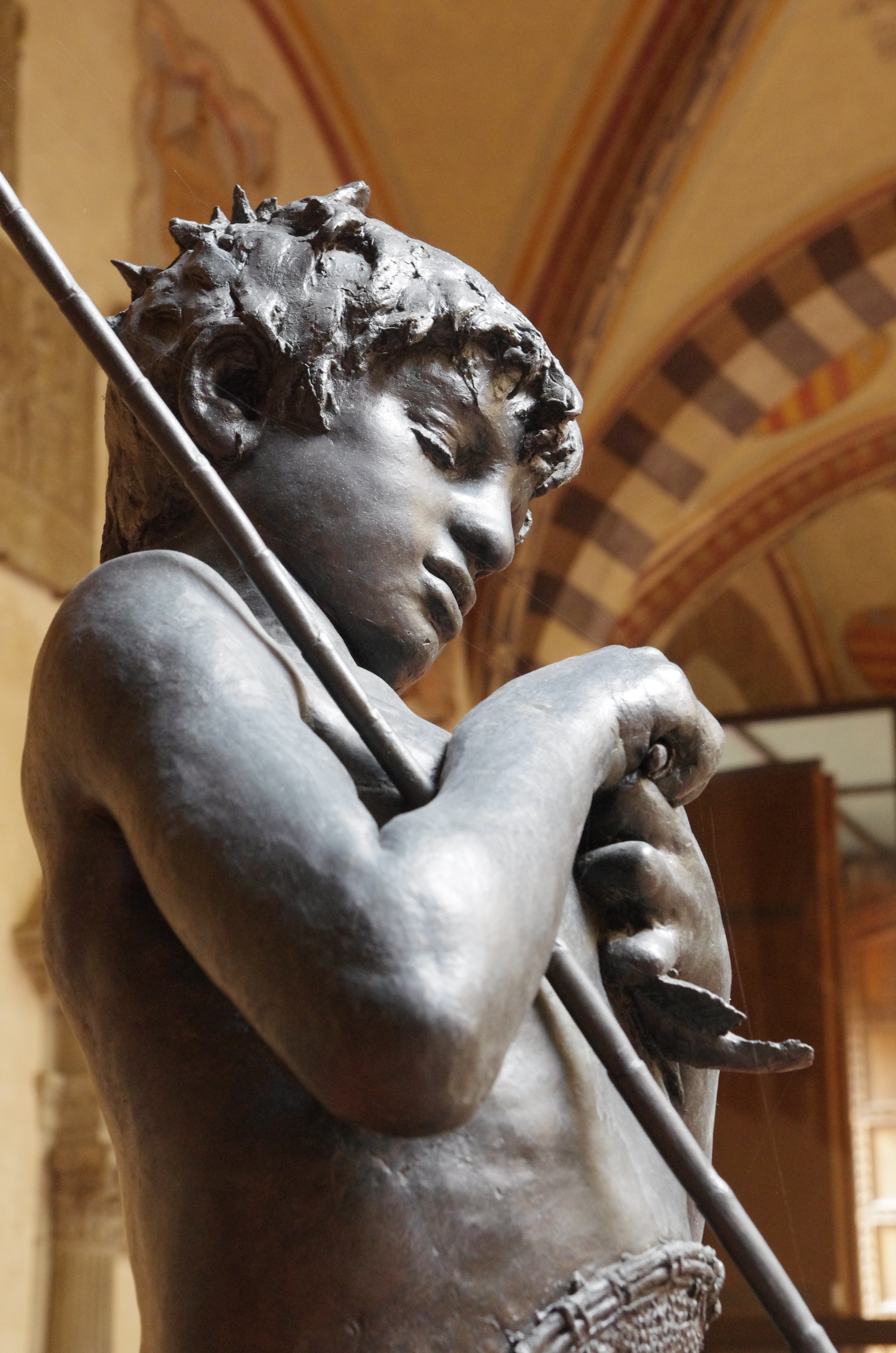 03 2015 Pescatorello-Vincenzo Gemito-National Museum of the Bargello (Florence) Photo Paolo Villa FOTO9229